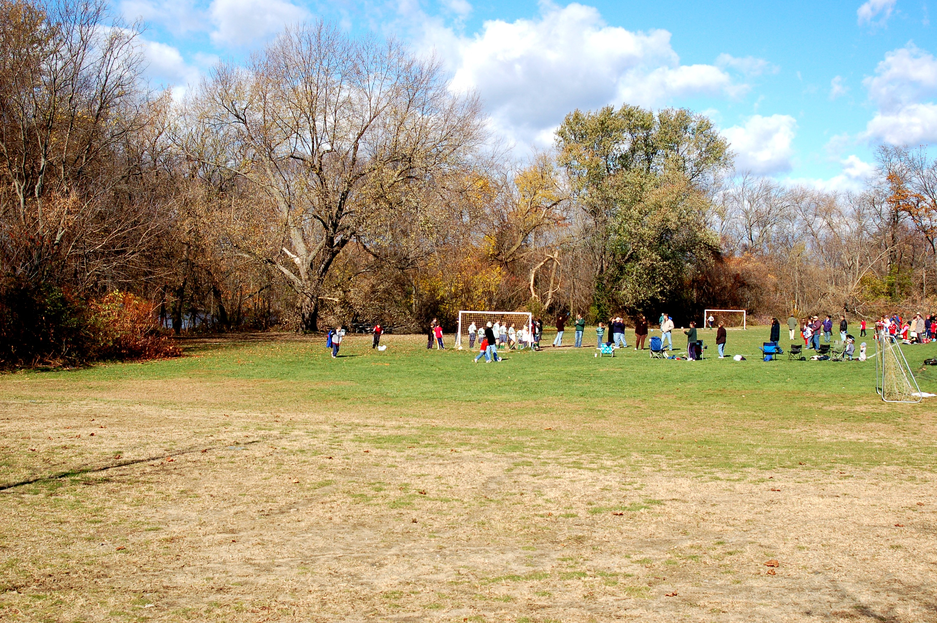 Groveland, Massachusetts Soccer Field. Photo by Author, Richard B. Johnson.